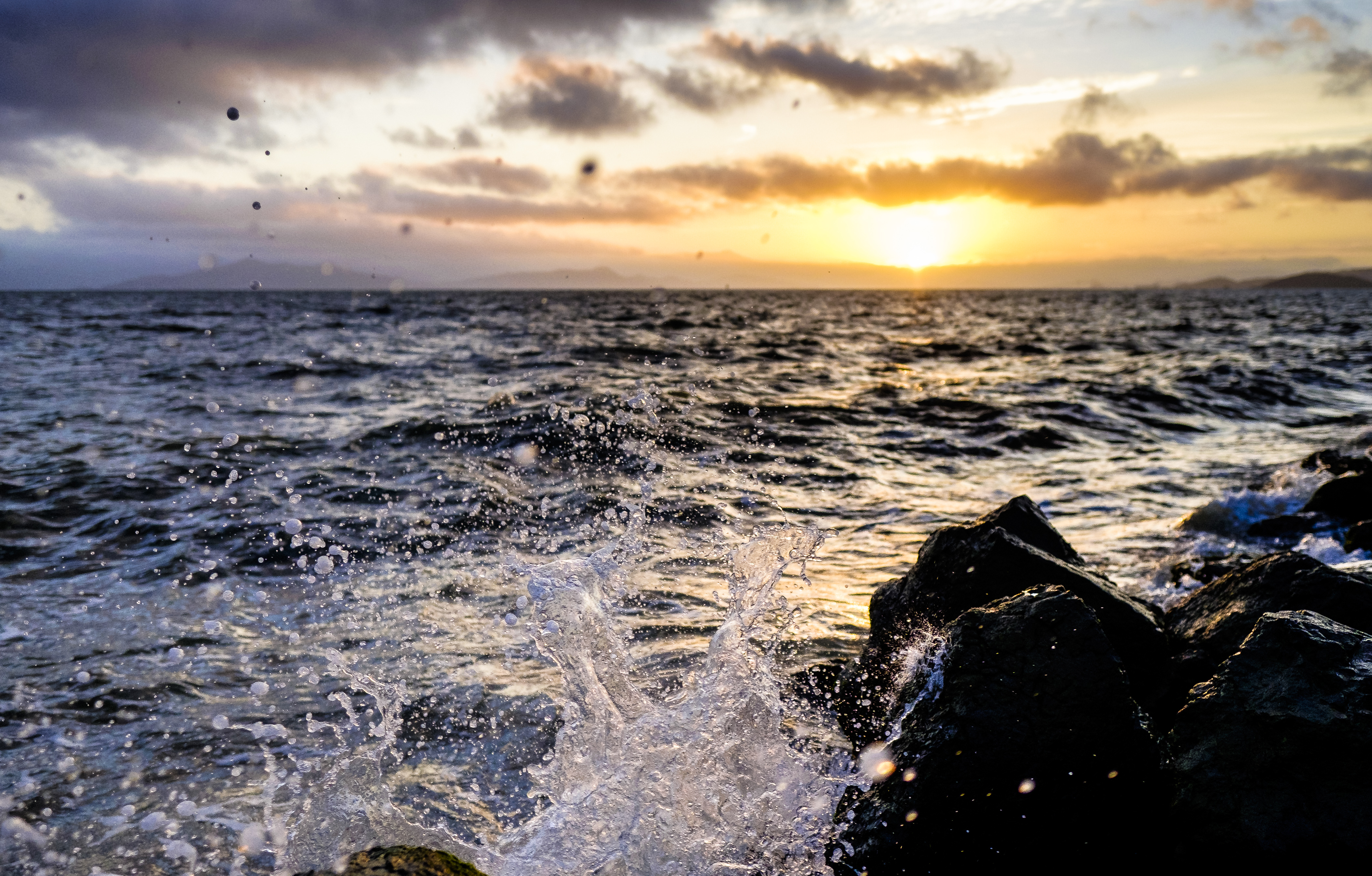 Berkeley, United States